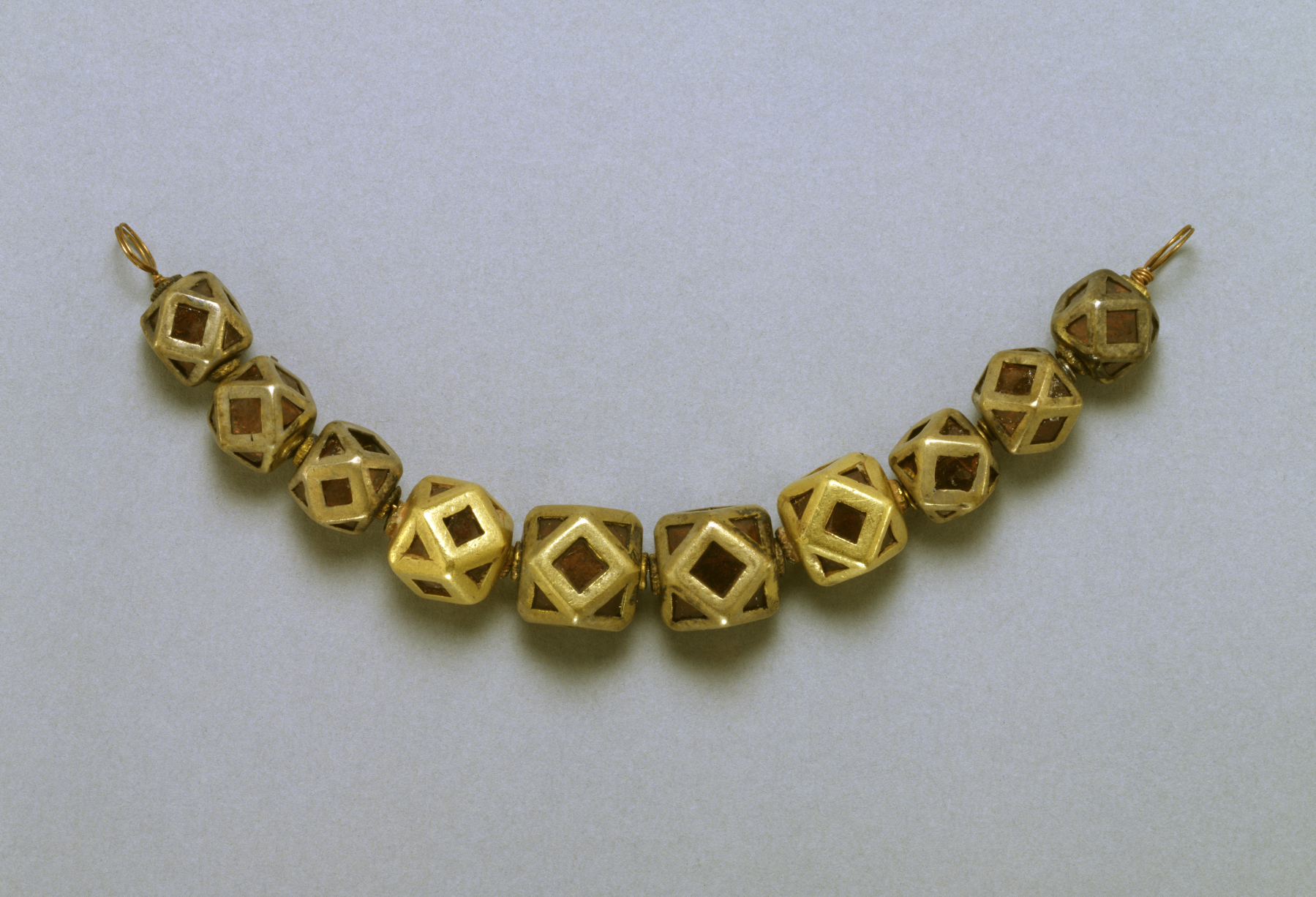 These ten beads were probably part of a woman's necklace. They are made of thin sheet gold that was cut and folded around a core of pitch (pine resin). Slices of garnet, backed with foil to enhance their brilliance, were inserted into the pitch between the gold frames. This technique of combining gold and foil-backed garnets is characteristic of the Goths of South Russia.